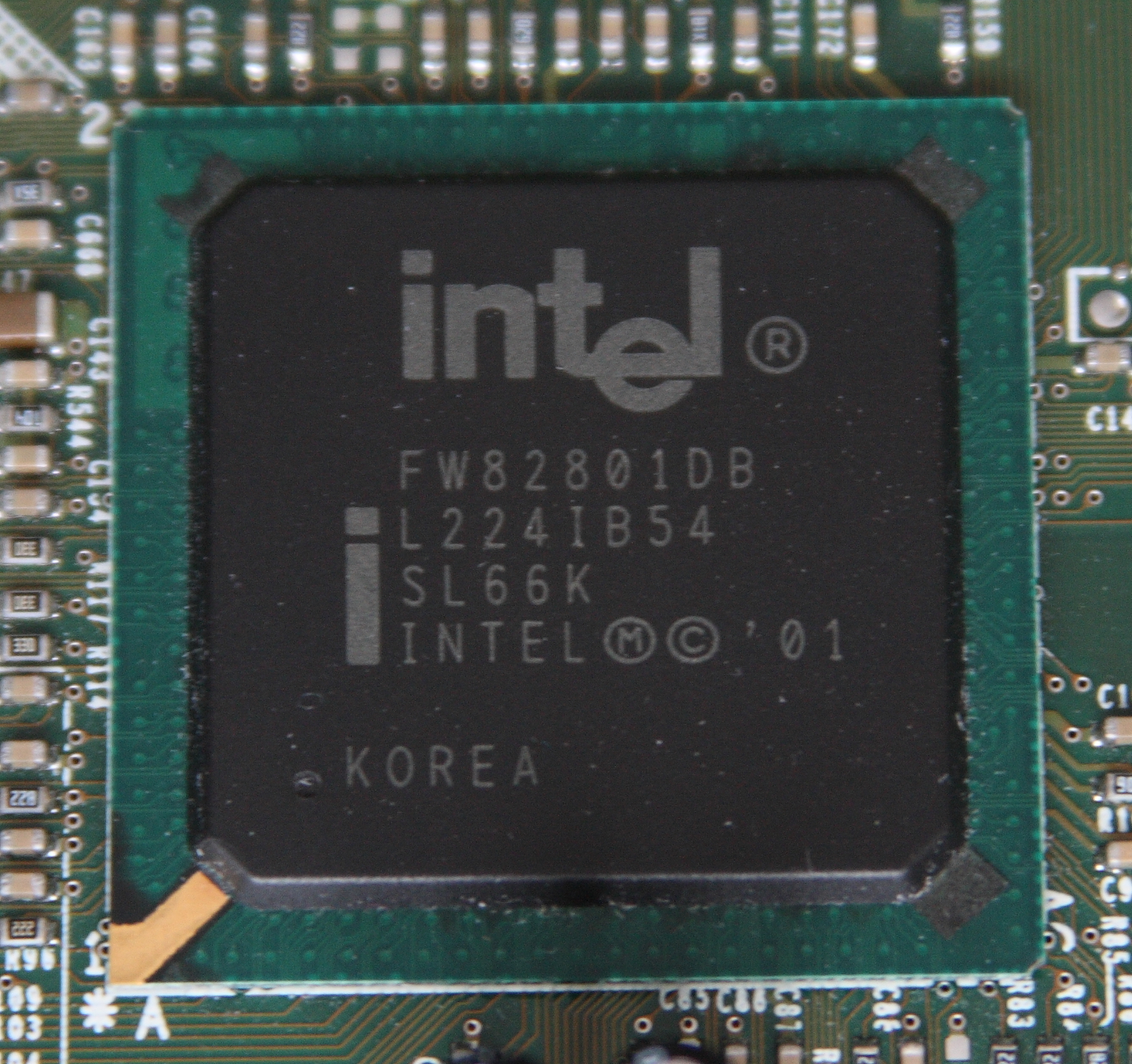 Intel FW82801DB